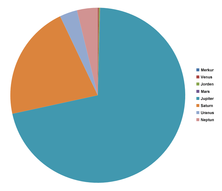 Pie chart of the masses of the Solar planets